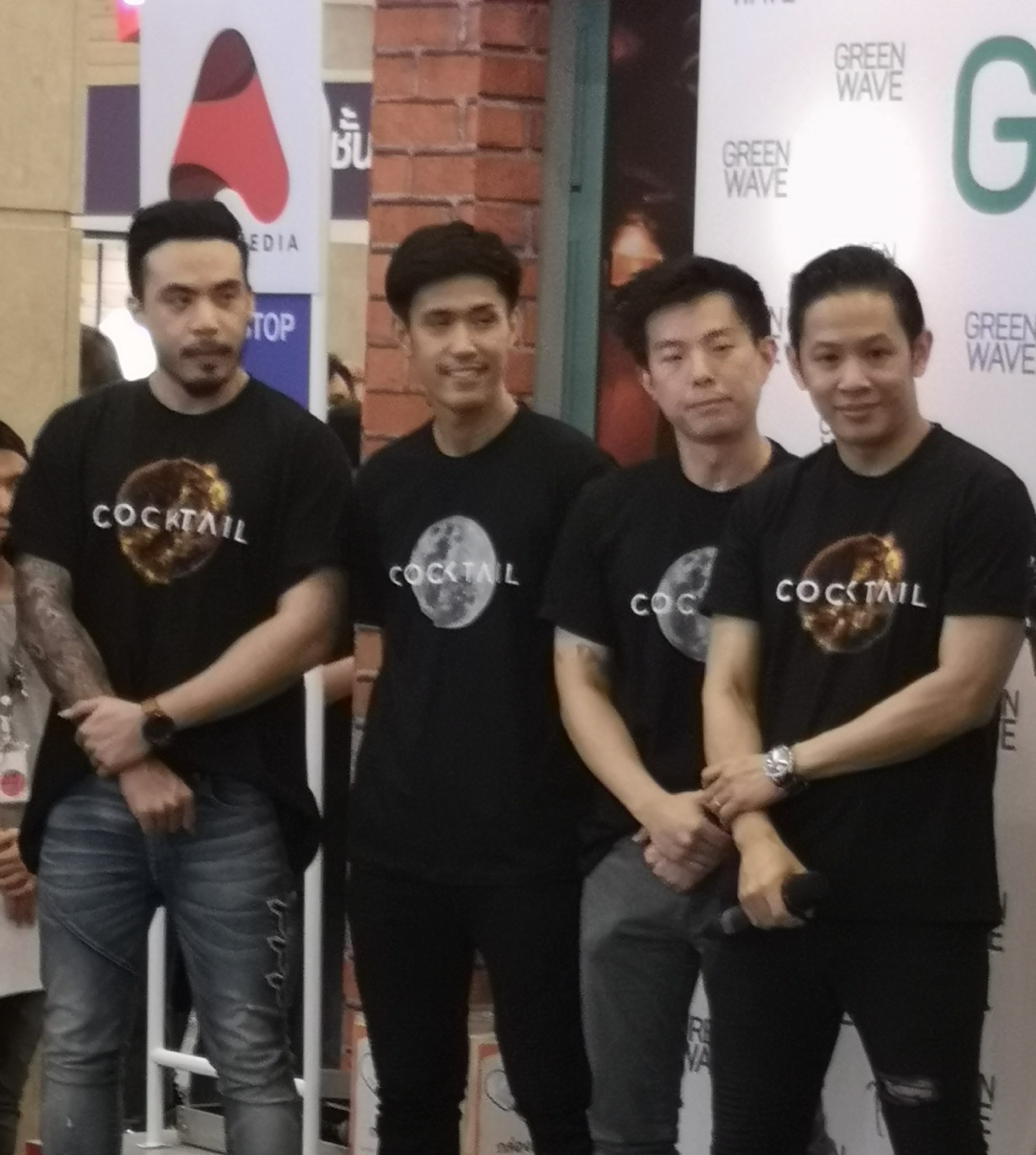 Cocktail at Terminal 21